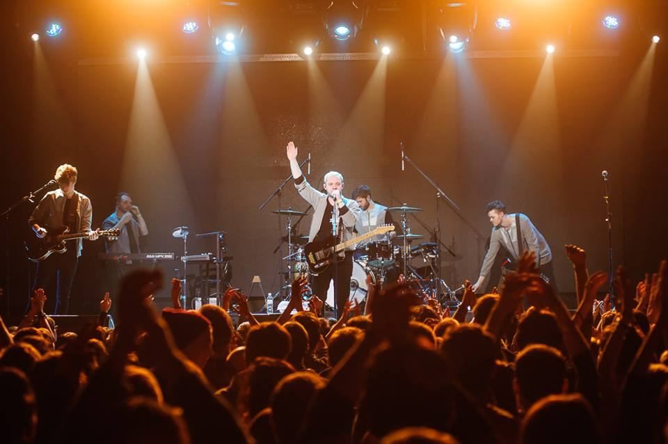 EE ਪੰਜਾਬੀ: ਐਵਰੀਥਿੰਗ ਐਵਰੀਥਿੰਗ ਦਸੰਬਰ 2015 ਵਿੱਚ ਕਿਯੇਵ ਵਿੱਚ ਪ੍ਰਦਰਸ਼ਨ ਕਰਦੇ ਹੋਏ